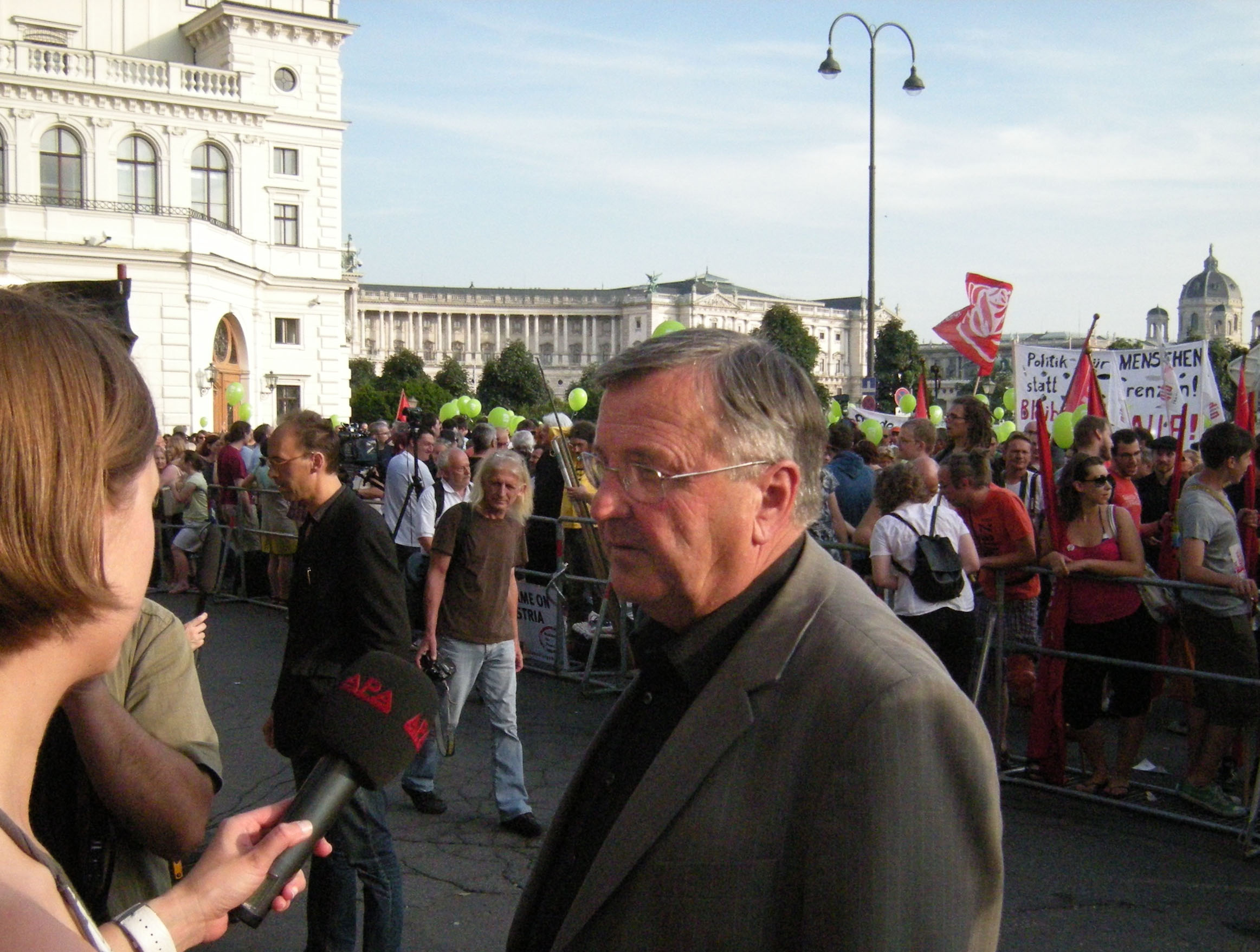 See file name. This was a demonstration of some 10.000-15.000 persons who are against actual Austrian 'policy' on asylum rights. It was suppoerted by a quantity of artists, writers and politicians. Please note that camera's time stamp is set to UT, which is local CEST -2h.